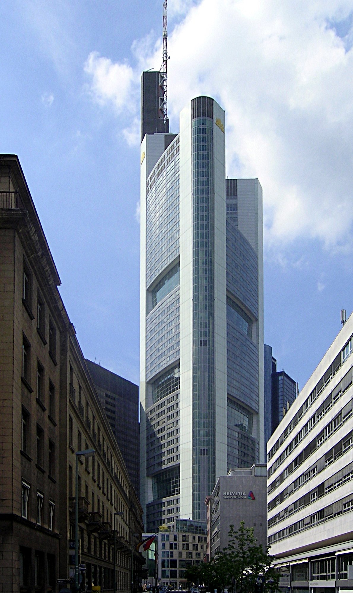 Bethmannstraße in Frankfurt, looking at the Commerzbank tower